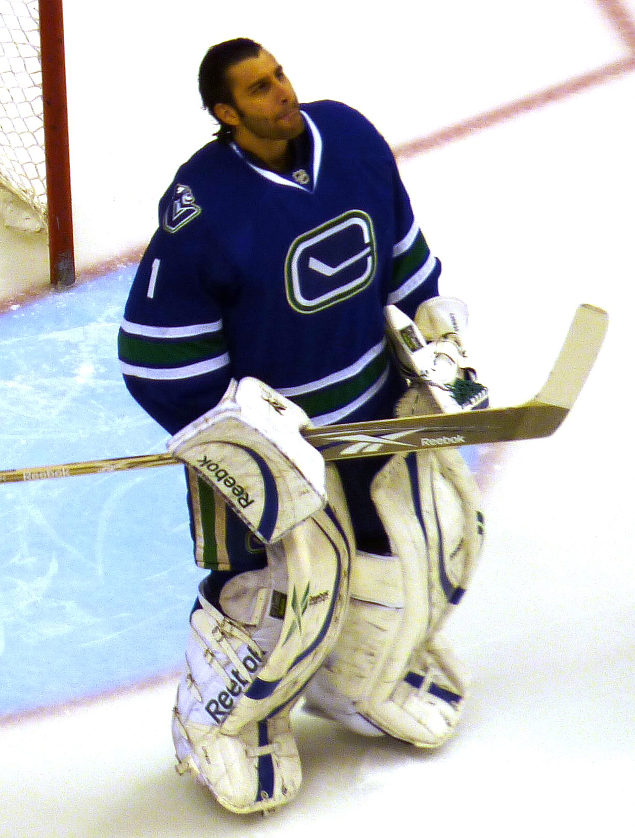 Vancouver Canucks goaltender Roberto Luongo during a game against the Anaheim Ducks on December 16, 2009.